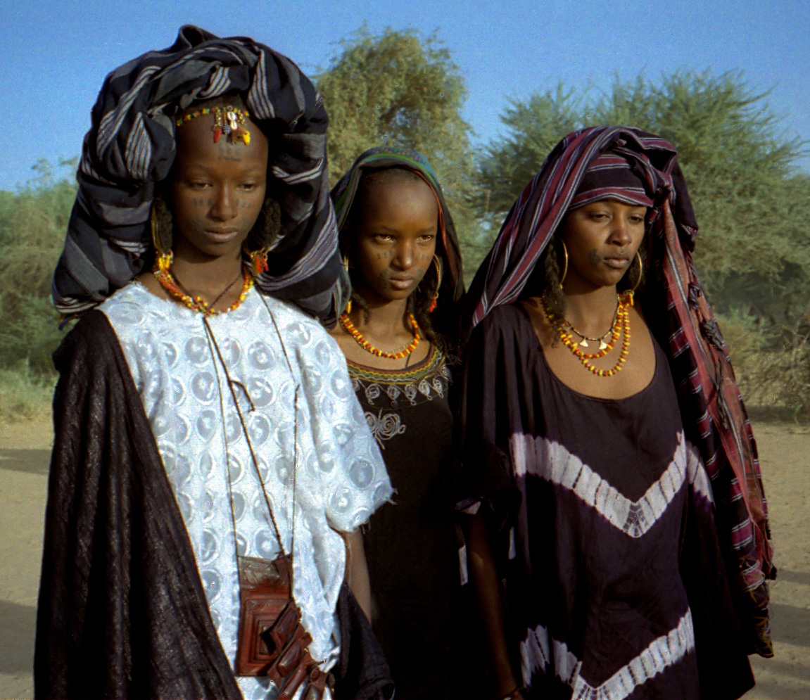 Young Wodaabe women. Photographed 1997 in Niger.